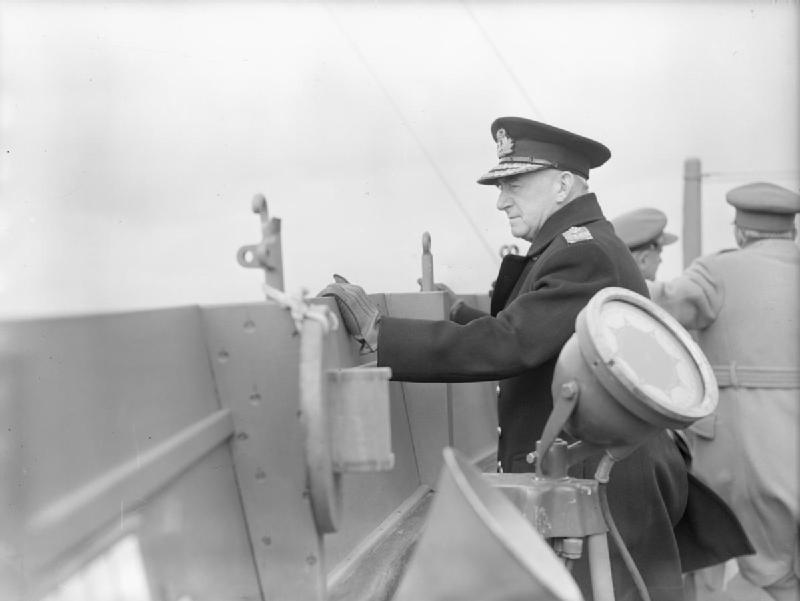 The Royal Navy during the Second World War The First Sea Lord, Admiral of the Fleet Sir Dudley Pound on the bridge of SS QUEEN MARY en route to the USA with Winston Churchill on board. This is one of the last pictures taken of Sir Dudley before his death early on 21 October 1943 aged 66. He died seventeen days after his resignation as First Sea Lord after being taken ill whilst with Mr Churchill at the Quebec meetings. On return to England he was taken to the Royal Masonic Hospital. London where he stayed until his death.